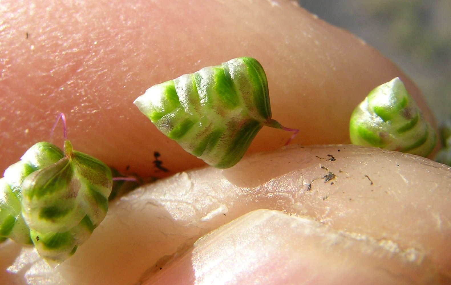 Spikelets are erect or drooping on 10-15 mm long, thin stalks, small (4-5 mm long), triangular, 4-8 flowered and unawned. Lemmas are inflated and as broad as long.